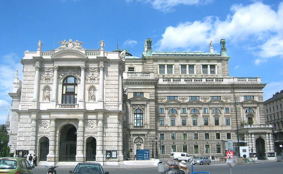 Austria, Vienna, Burgtheater